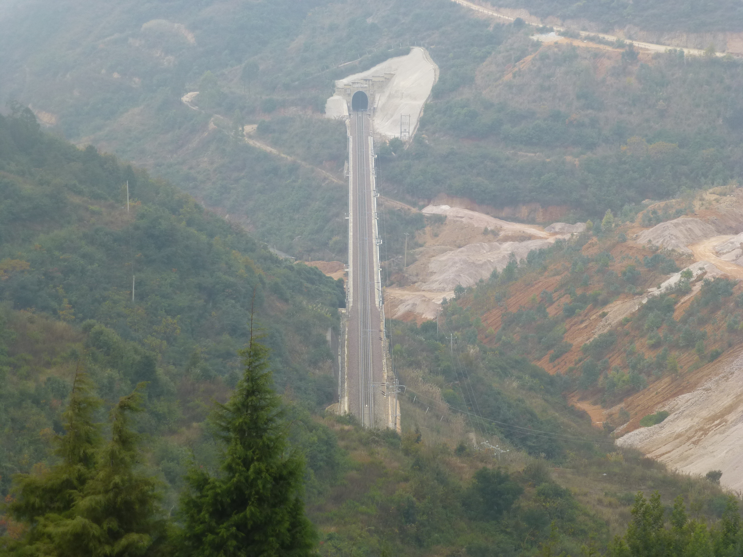 A section of the Yuxi-Mengzi Railway, seen from Yunnan Hwy 319 (former S304) between Yanhe Subdstrict (Yuxi City) and the border of Tonghai County (Qutuo Pass).